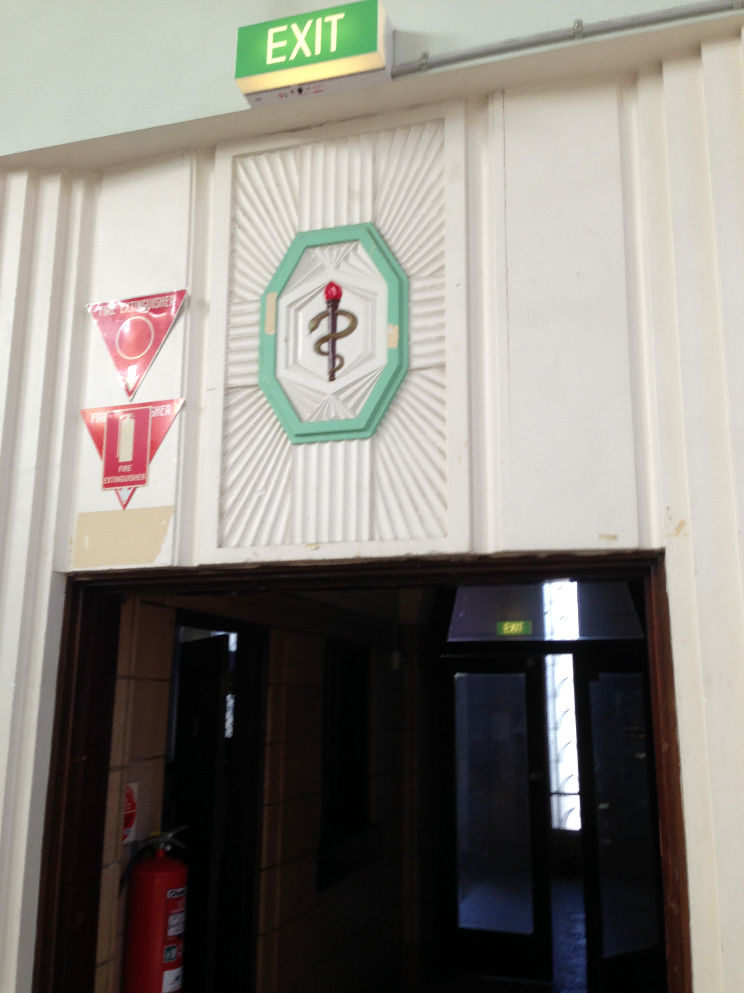 Medical symbol in an Art Deco design within the waiting hall of the former Repatriation Commission Outpatient Clinic